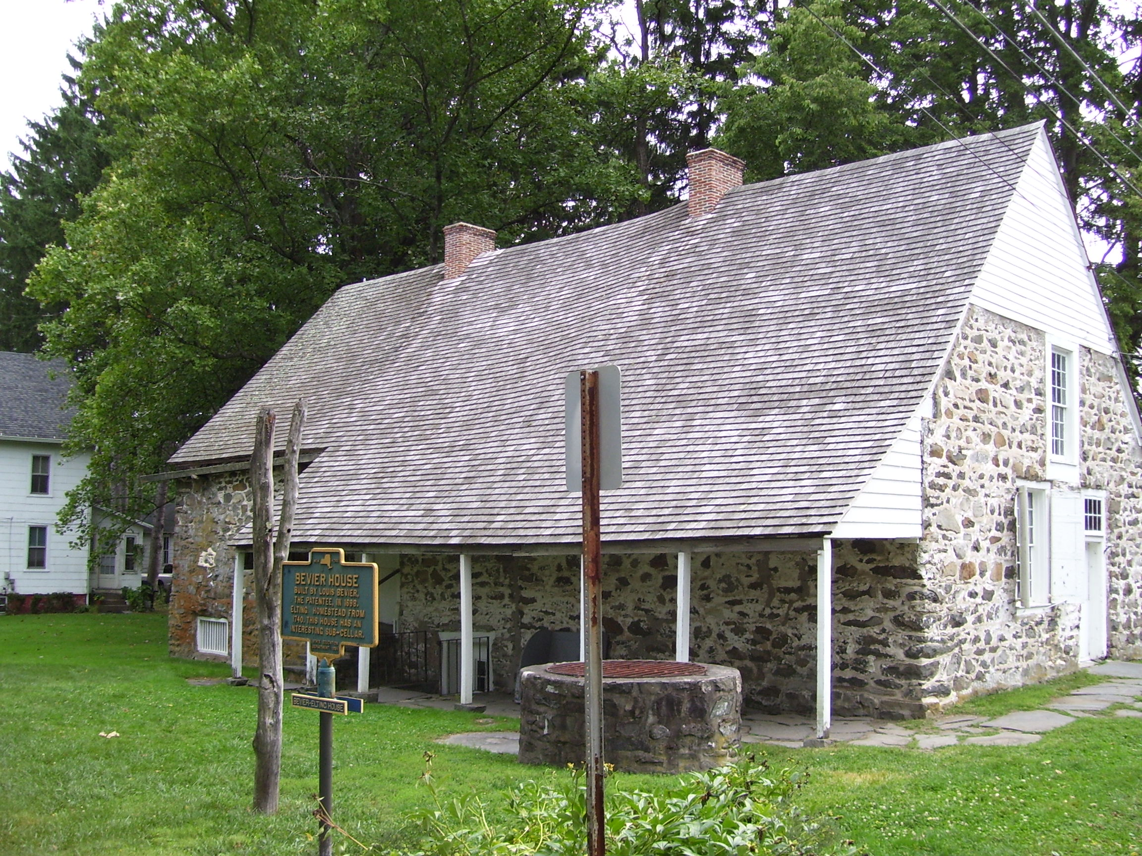 Photo of the Bevier House on Huguenot Street Historic District in New Paltz, New York, USA.